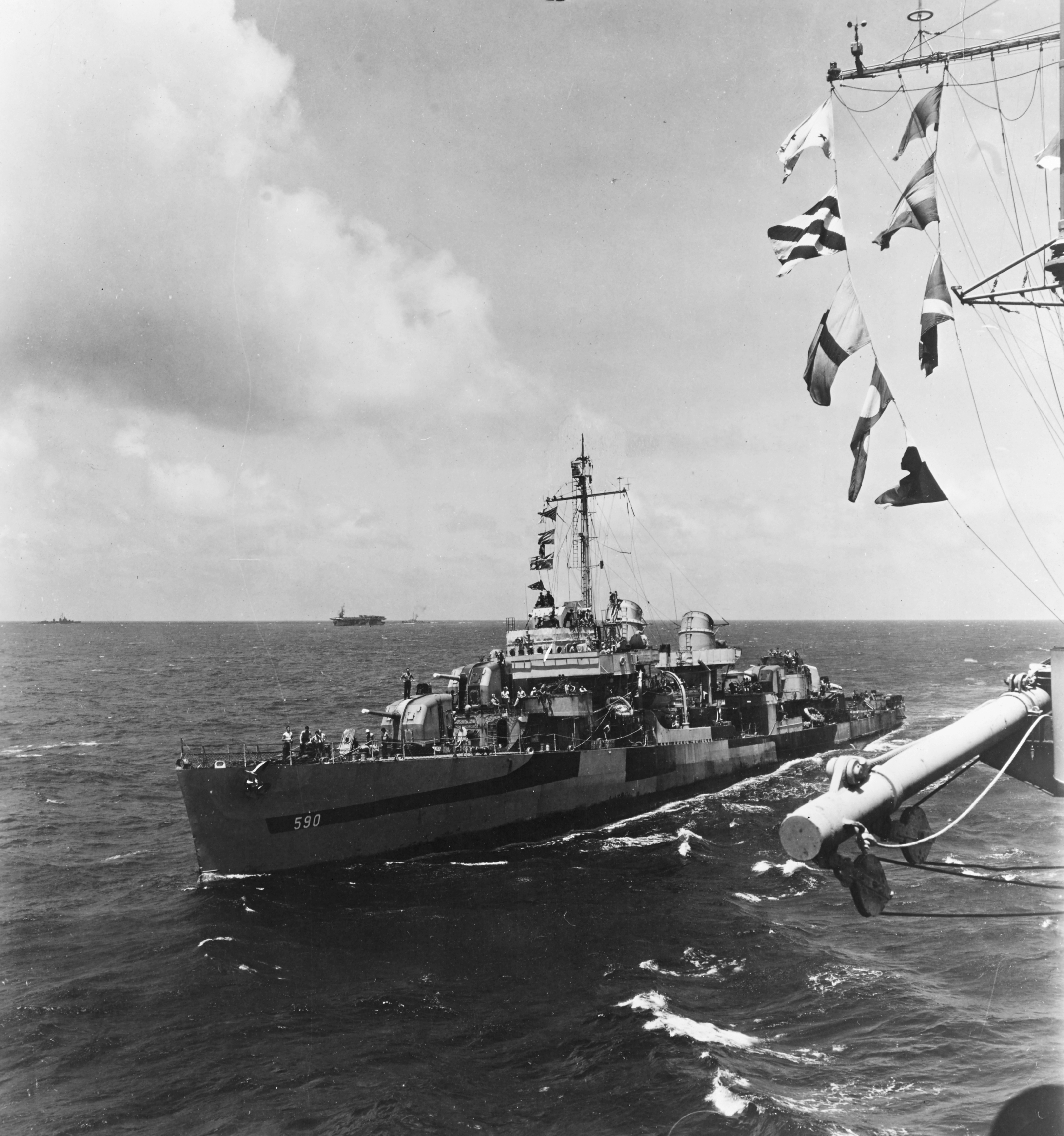 The U.S. Navy destroyer USS Paul Hamilton (DD-590) comes alongside the escort carrier USS Makin Island (CVE-93) during the Iwo Jima campaign, 11 March 1945. She is wearing Camouflage Measure 32, Design 3d. Note that the wartime censor has removed the radar antennas.